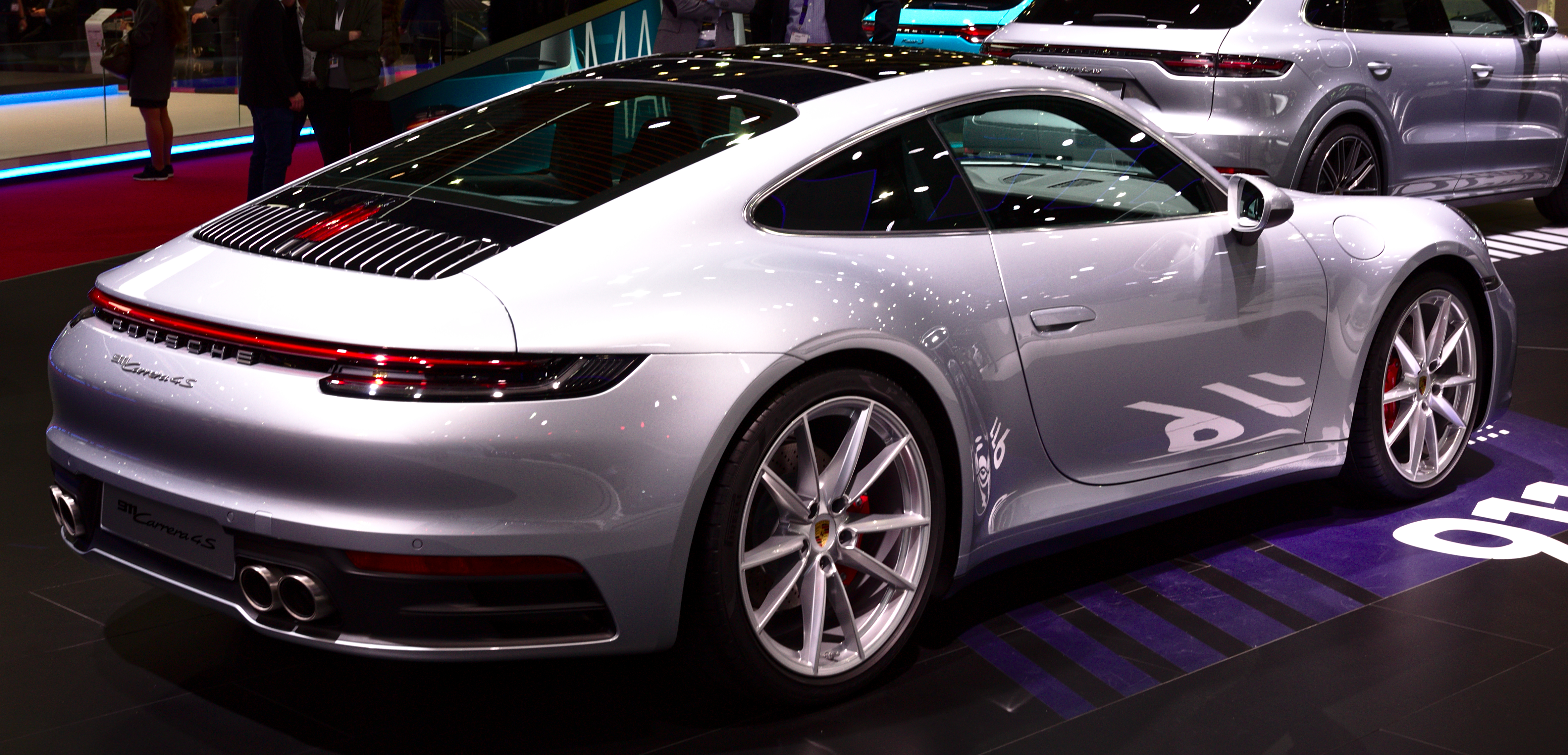 Porsche 992 Carrera 4S at Geneva Motor Show 2019